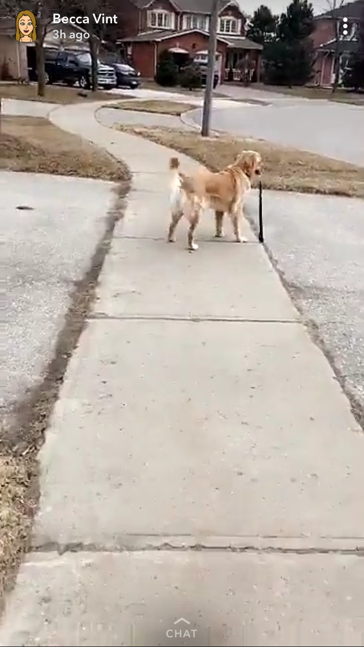 Rebecca Vint's dog, Lilly, seen walking herself via Snapchat